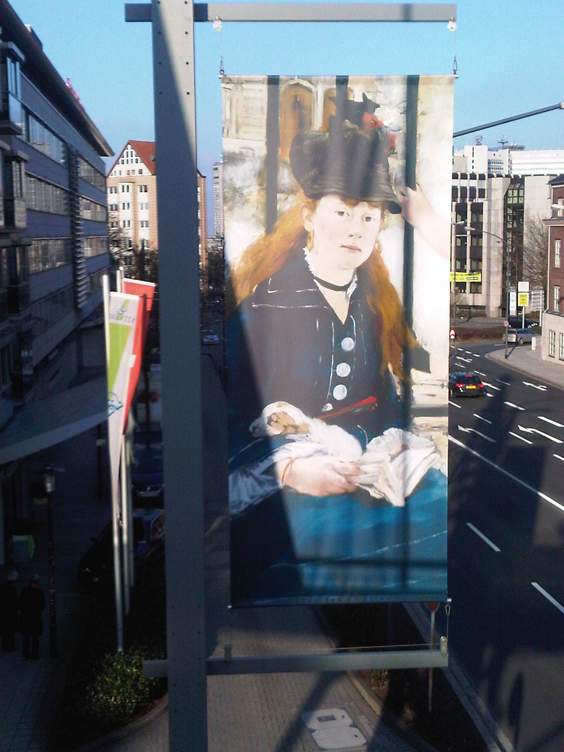 Street poster to the exhibition "Bilder einer Metropole — Die Impressionisten in Paris"